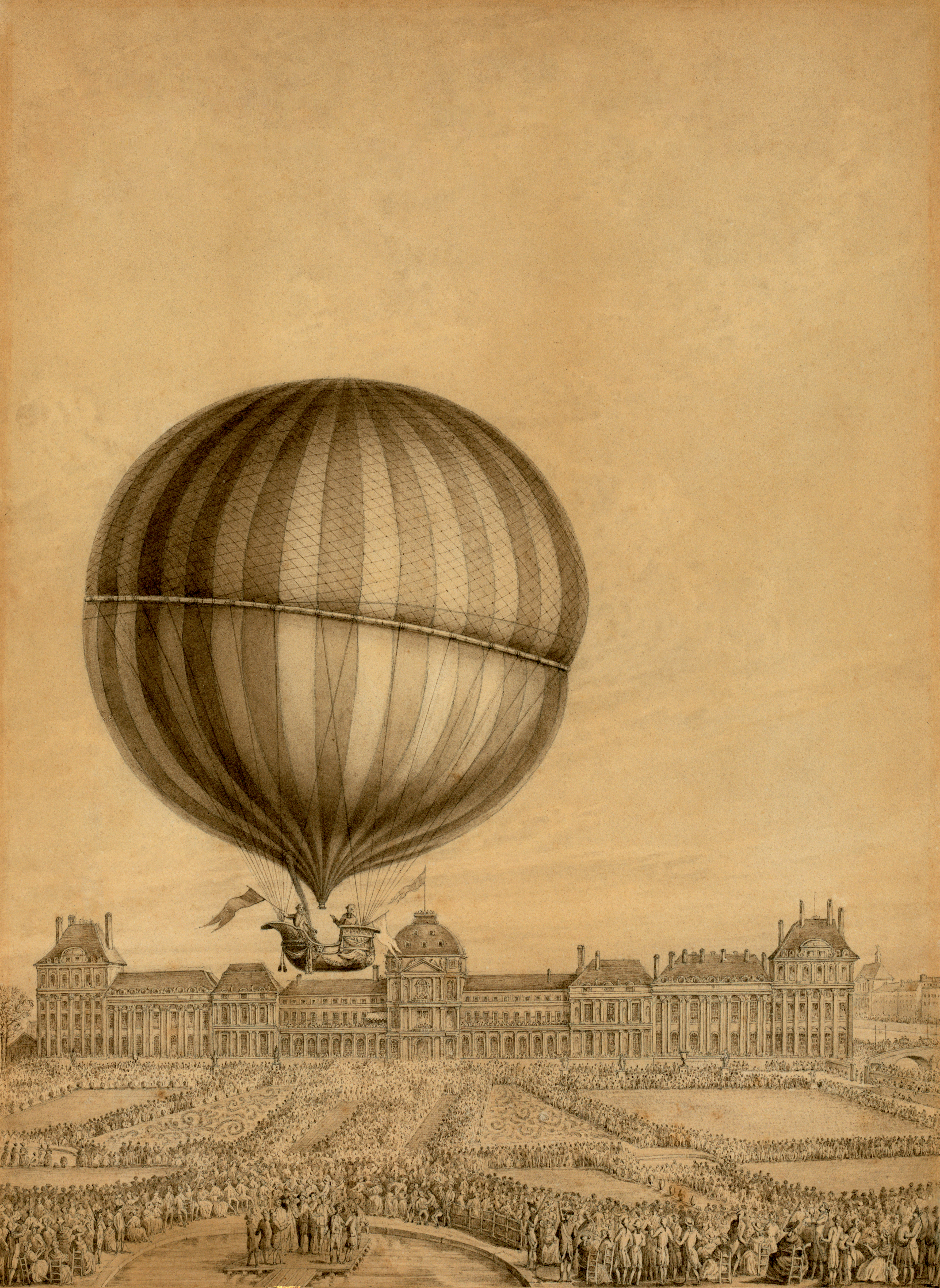 Departure of Jacques Charles and Marie-Noel Robert’s ‘aerostatic globe’ balloon from the Jardin des Tuileries, Paris, on Dec. 1, 1783. Drawing shows Jacques Charles and Nicolas Marie-Noel Robert standing in their hydrogen-filled balloon waving flags, beginning their ascent from the Tuileries Gardens, Paris, with the former Tuileries Palace in the background. Thousands of spectators are gathered in the foreground to witness the first manned gas balloon flight. "Anonymous engraving on the same lines, with print entitled 'To the honour of Messrs. Charls and Robert'"—typed on accompanying note.